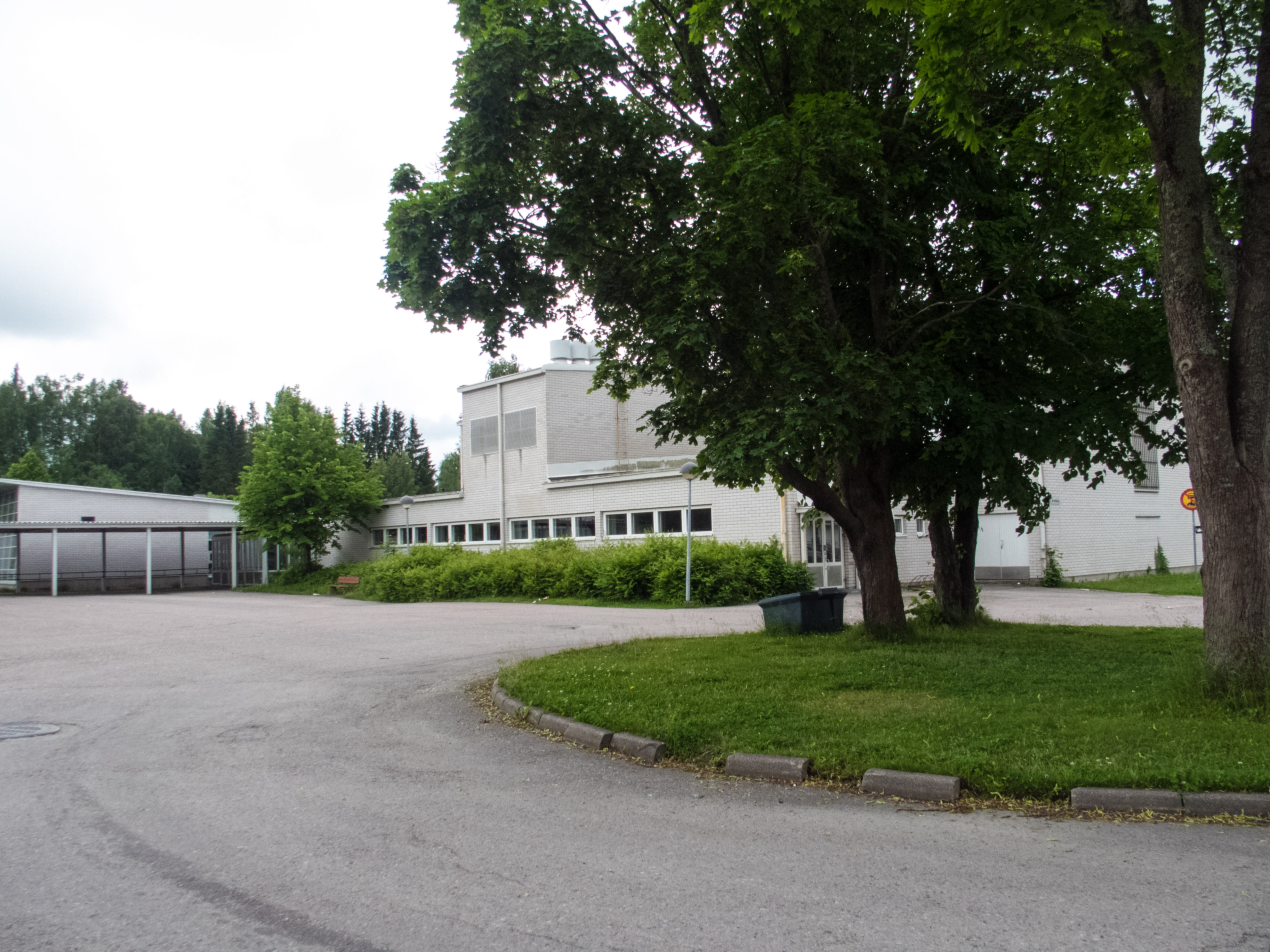 Rajamäen lukio gymnasium Rajamäki Nurmijärvi Finland